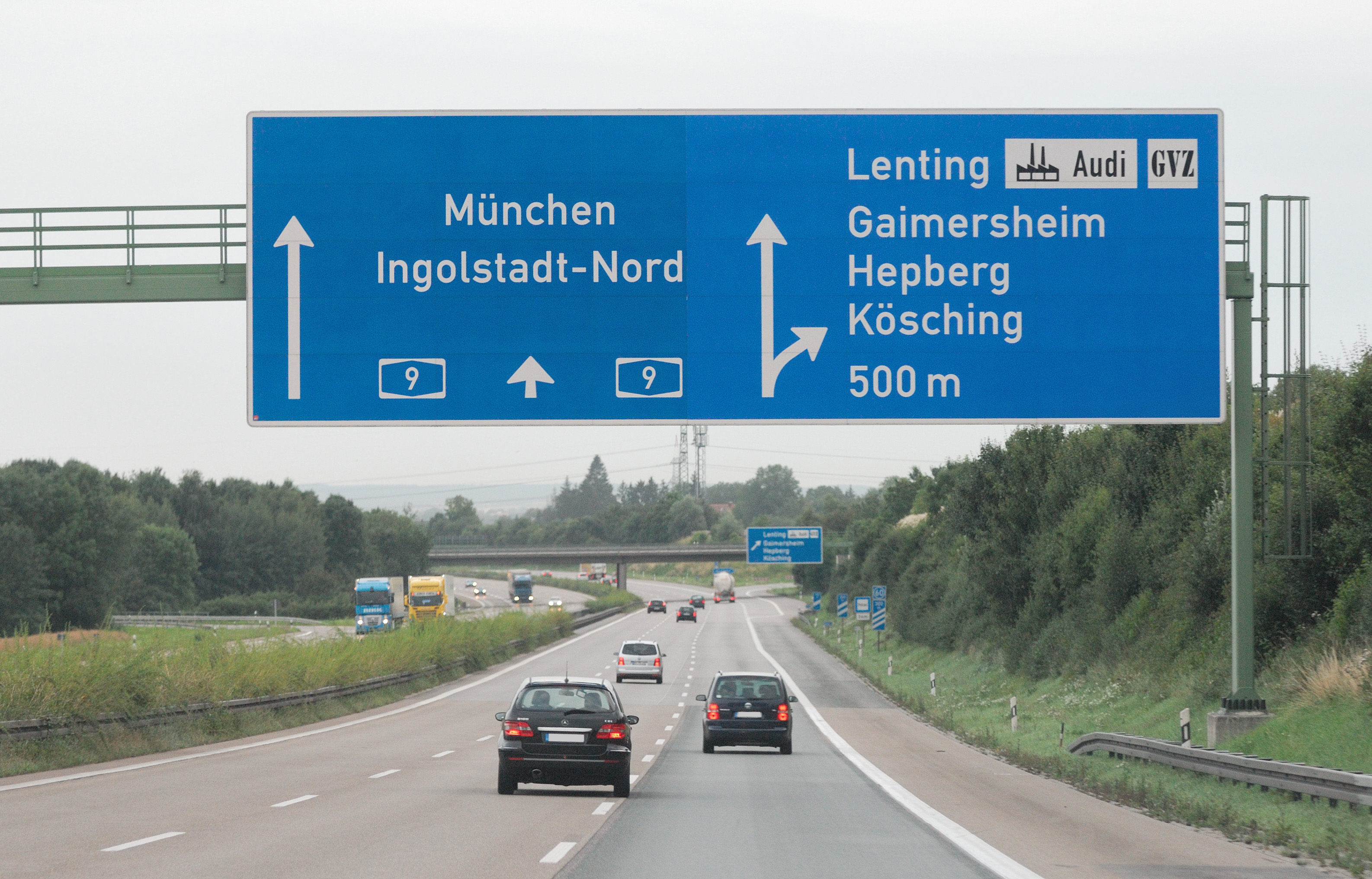 Road sign for the Lenting exit of A 9; road shot.